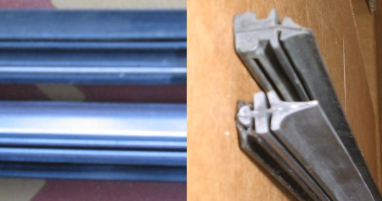 Two wiper blades in comparison, the first high old original frame of the wiper, the second new frame to be included on the old wiper